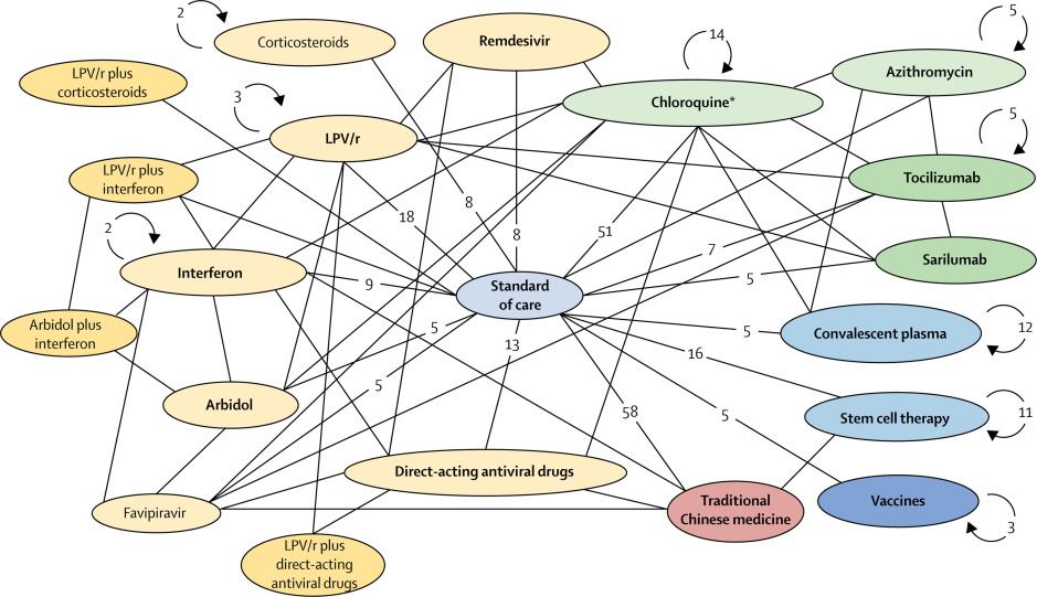 Circles (node) represent interventions or intervention groups (categories). Lines between two circles indicate comparisons in clinical trials. The numbers on the lines are the number of clinical trials making the specific comparison. Circular arrows and numbers indicate the number of non-comparative clinical trials in which that intervention is included. A few trials examining combination therapies are excluded from the figure due to space limitations. COVID-19=coronavirus disease 2019. LPV/r (lopinivir–ritonavir). Includes trials on hydroxychloroquine and chloroquine.